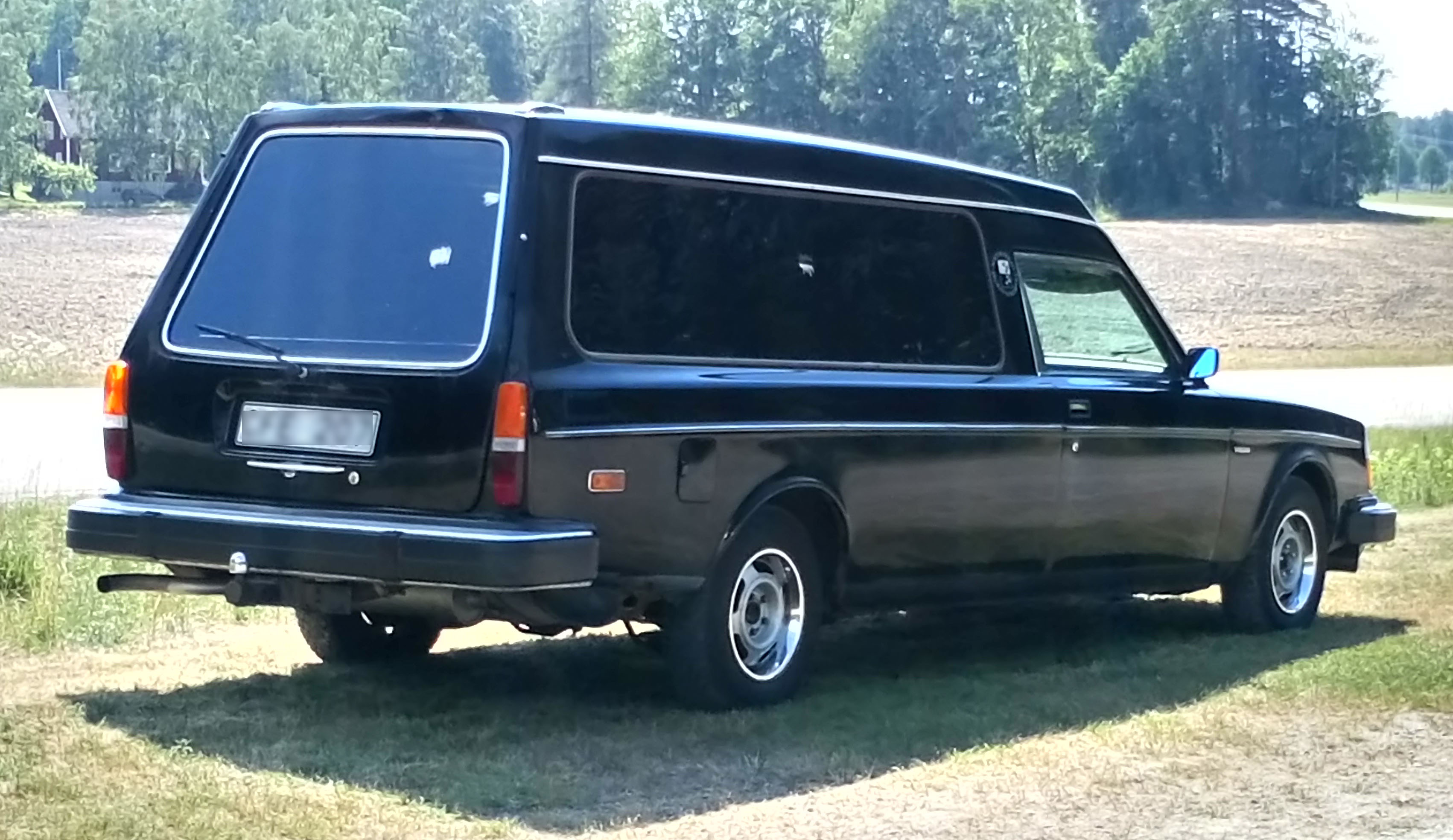 1980 Volvo 245 Hearse